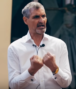 This file is the image profile of Gerard O'Donovan